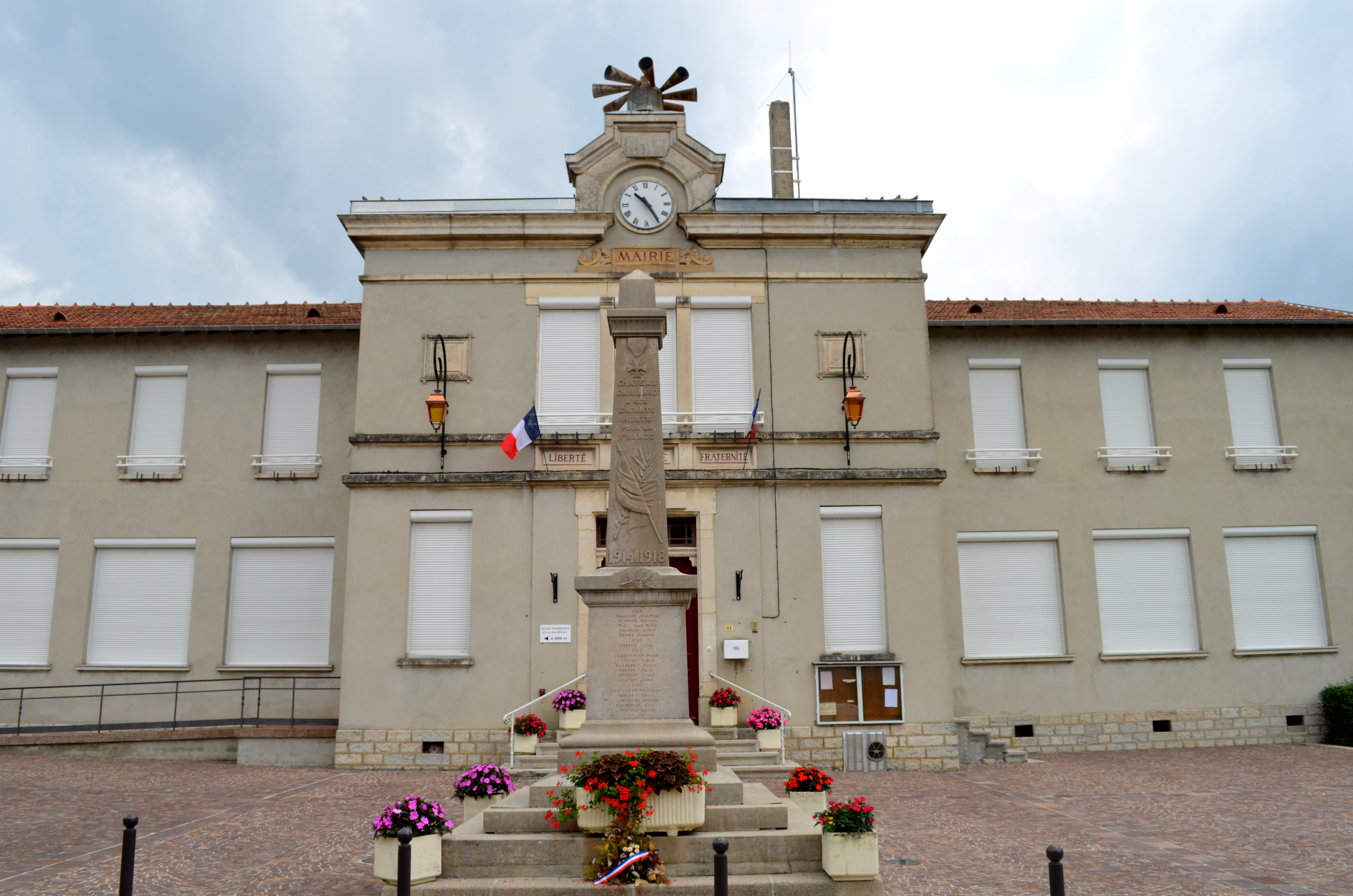 Former town hall and war memorial Château-Gaillard (Ain).